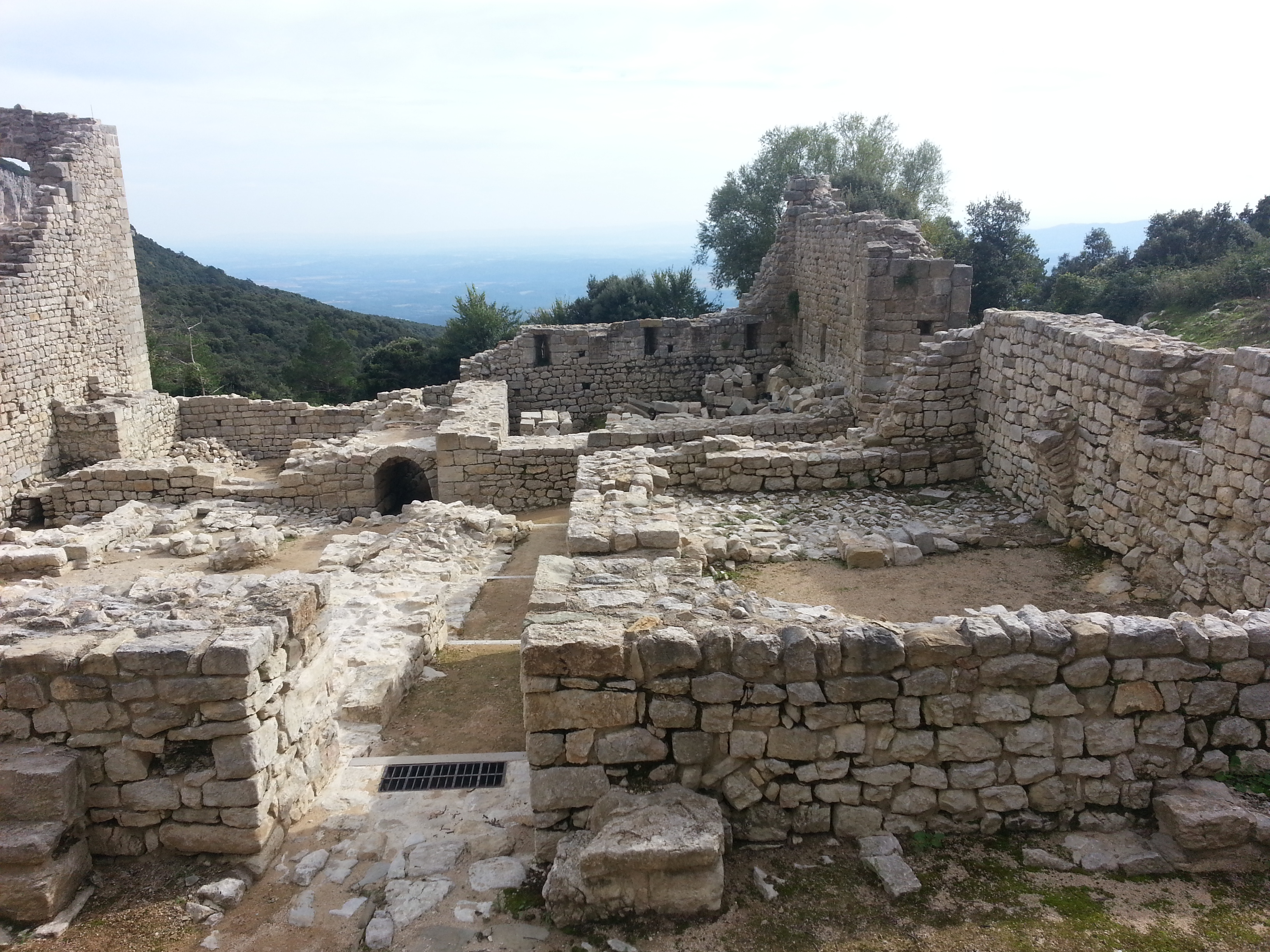 Medieval Monastery of Sant Llorenç del Mont (Alt Empordà, Catalonia, Spain)